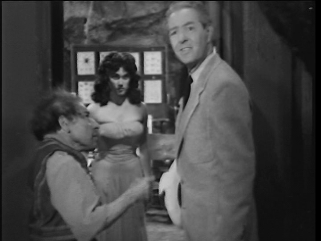 This frame, approximately 11 minutes in, shows a dwarf manservant, played by John George, Tarantella, played by Tandra Quinn, and Dr. Leland J. Masterson, played by Harmon Stevens (from left to right.)